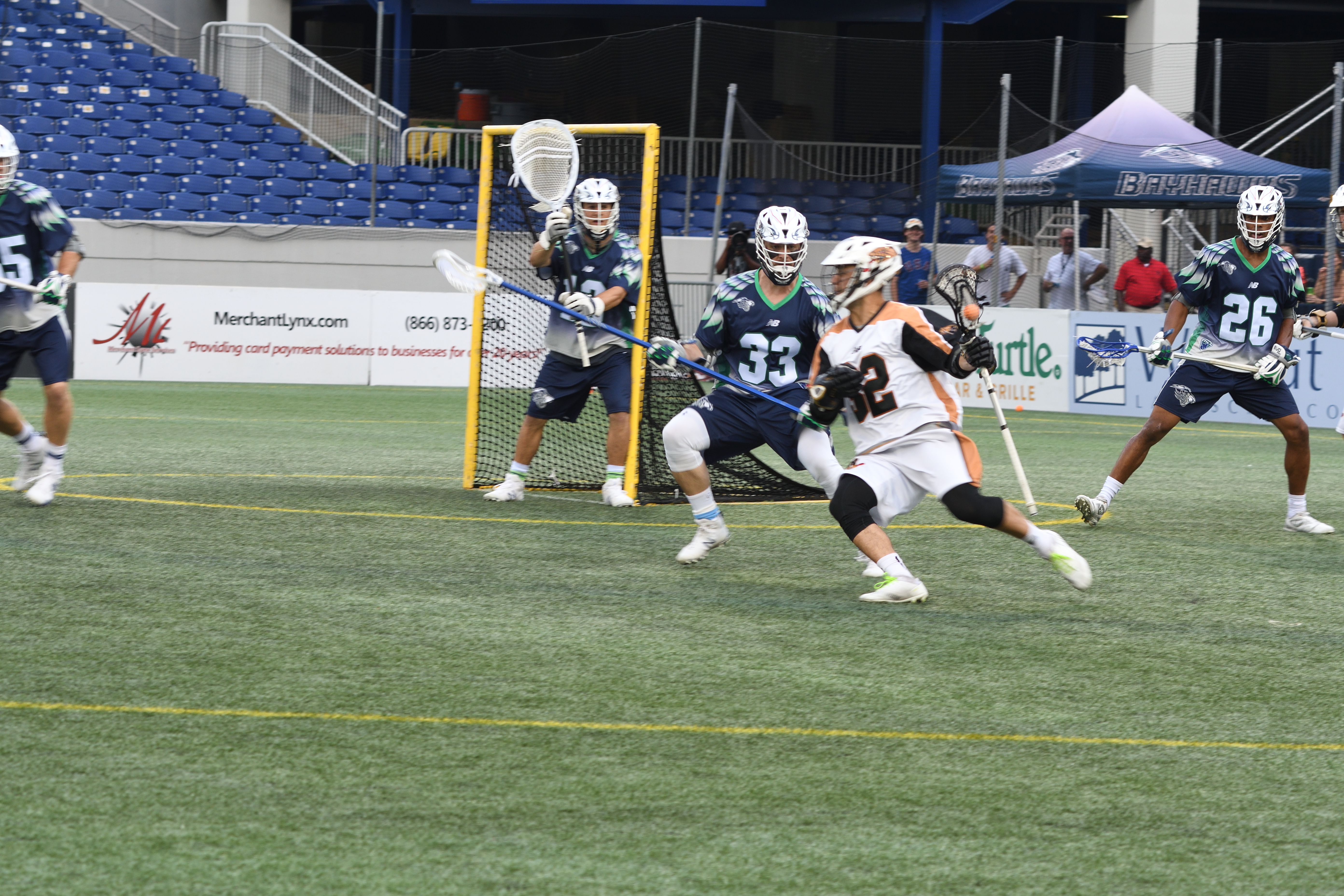 Jordan Wolf dodging a Chesapeake Bayhawks defender topside.